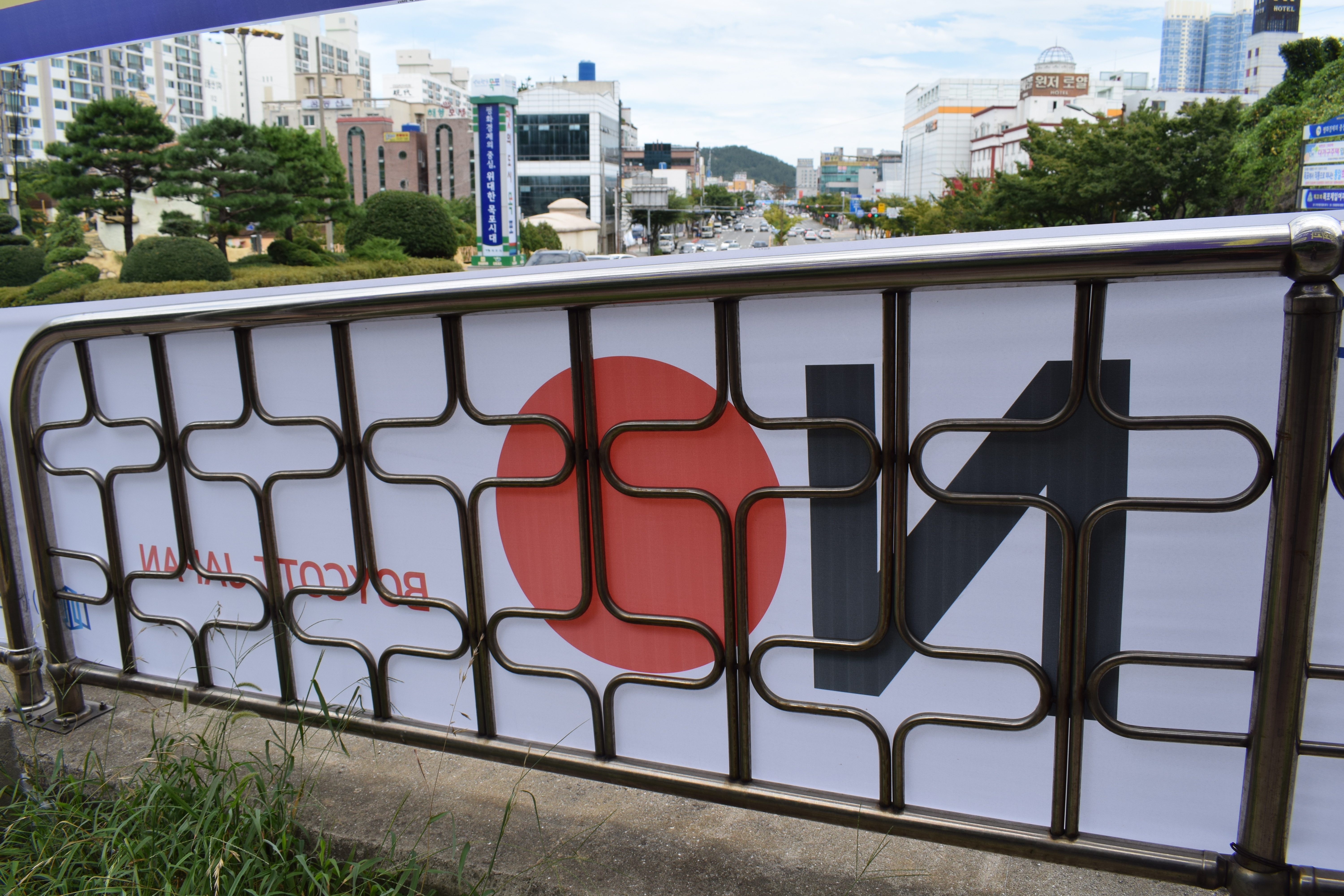 "Boycott Japan" banner at entrance of tunnel on Tongil-daero